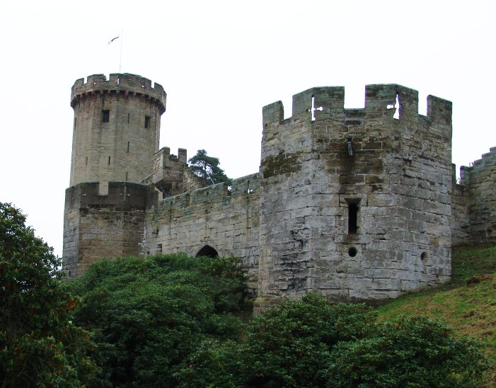 Exterior of Warwick Castle. Taken by Galli October 2004.